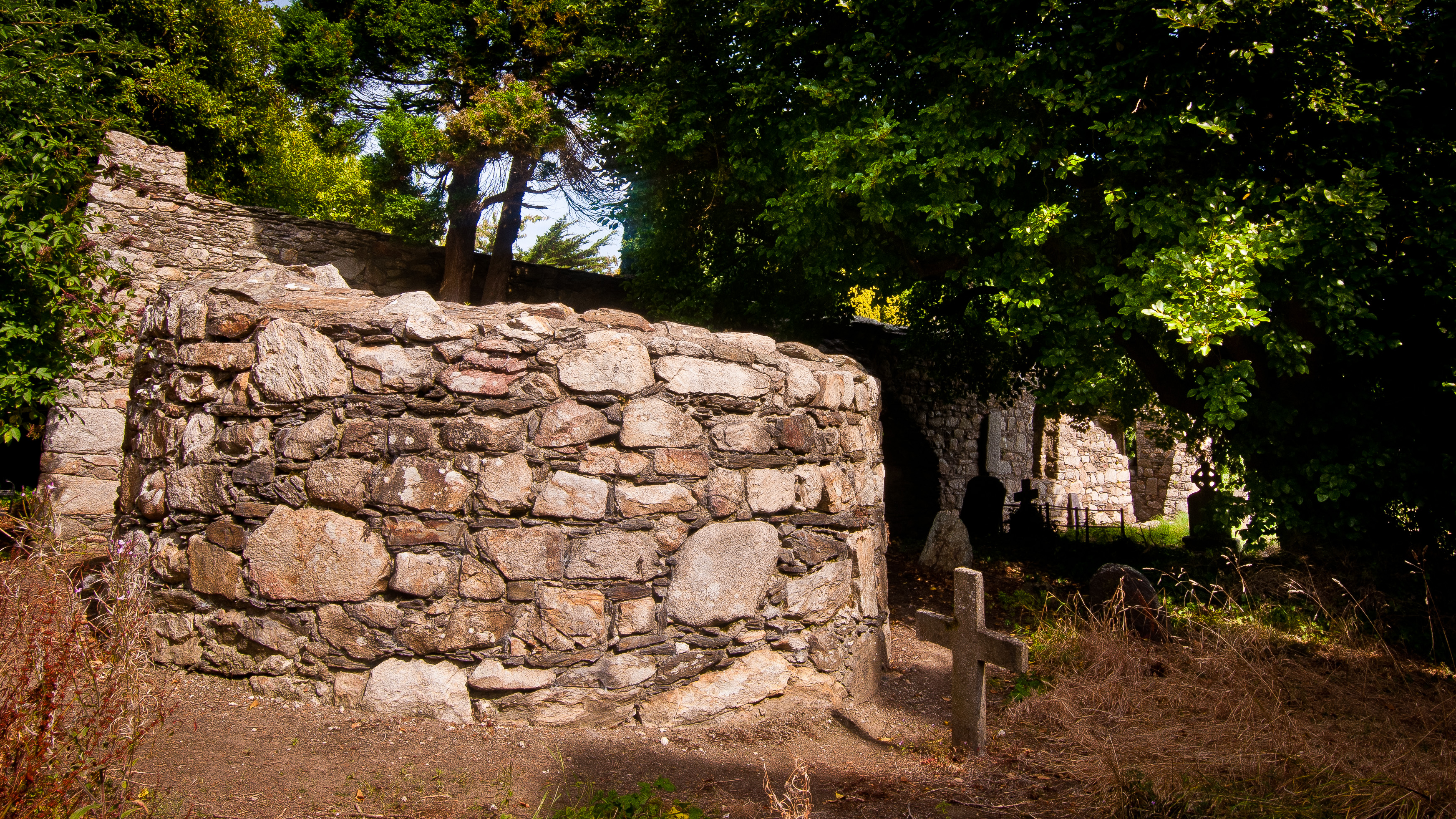 The ruin of the round tower at Rathmichael Old Church, County Dublin, Ireland